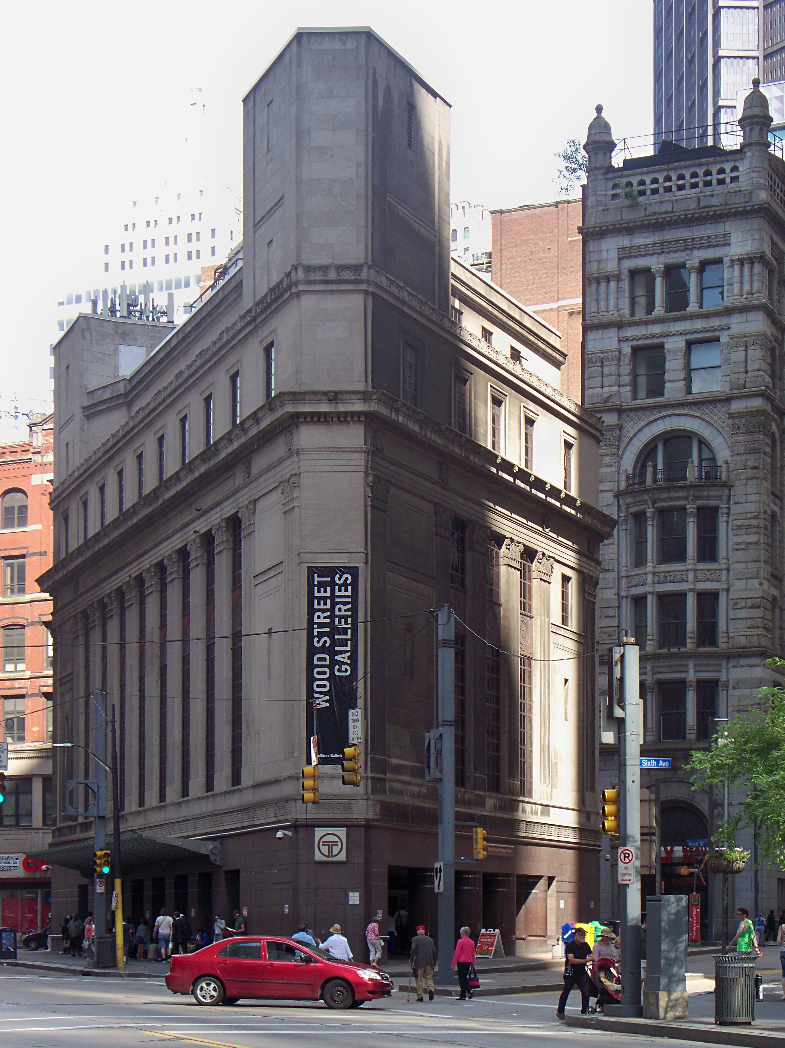 The old Monongahela National Bank building, now the Wood Street subway station (ground floor and below) and the Wood Street Galleries (upper floors)